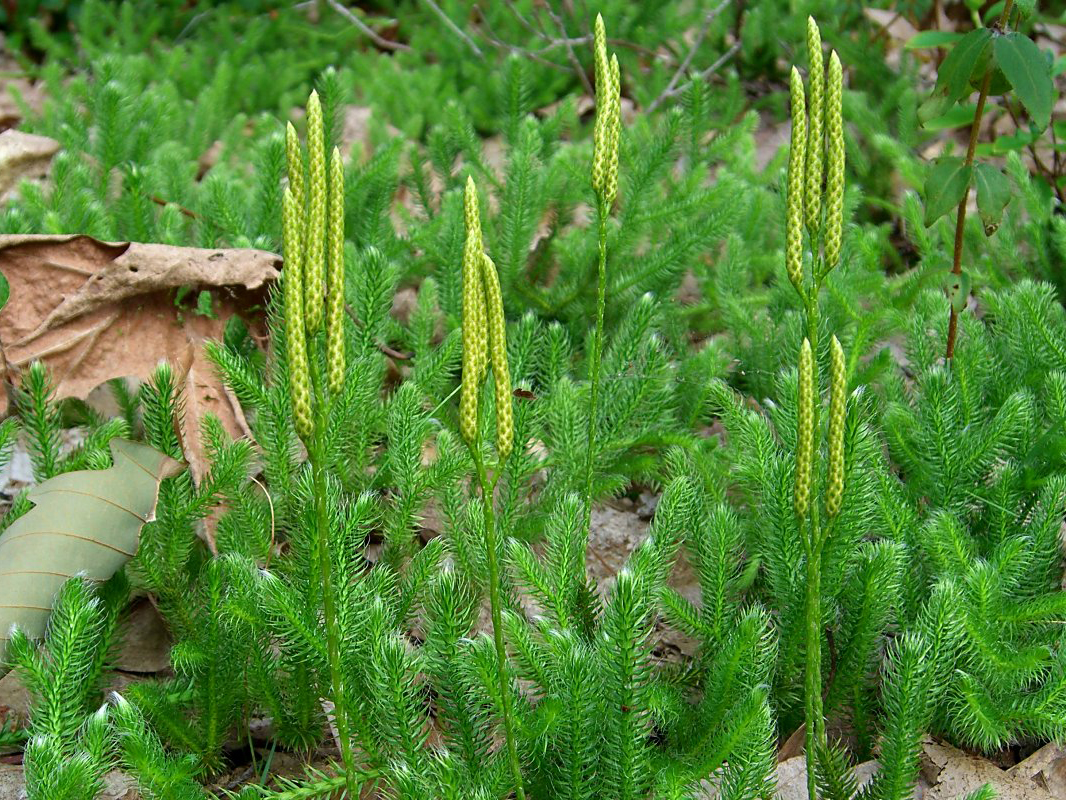 Lycopodium clavatum L. (1753) - Running clubmoss - Appalachians; Shenandoah Mt